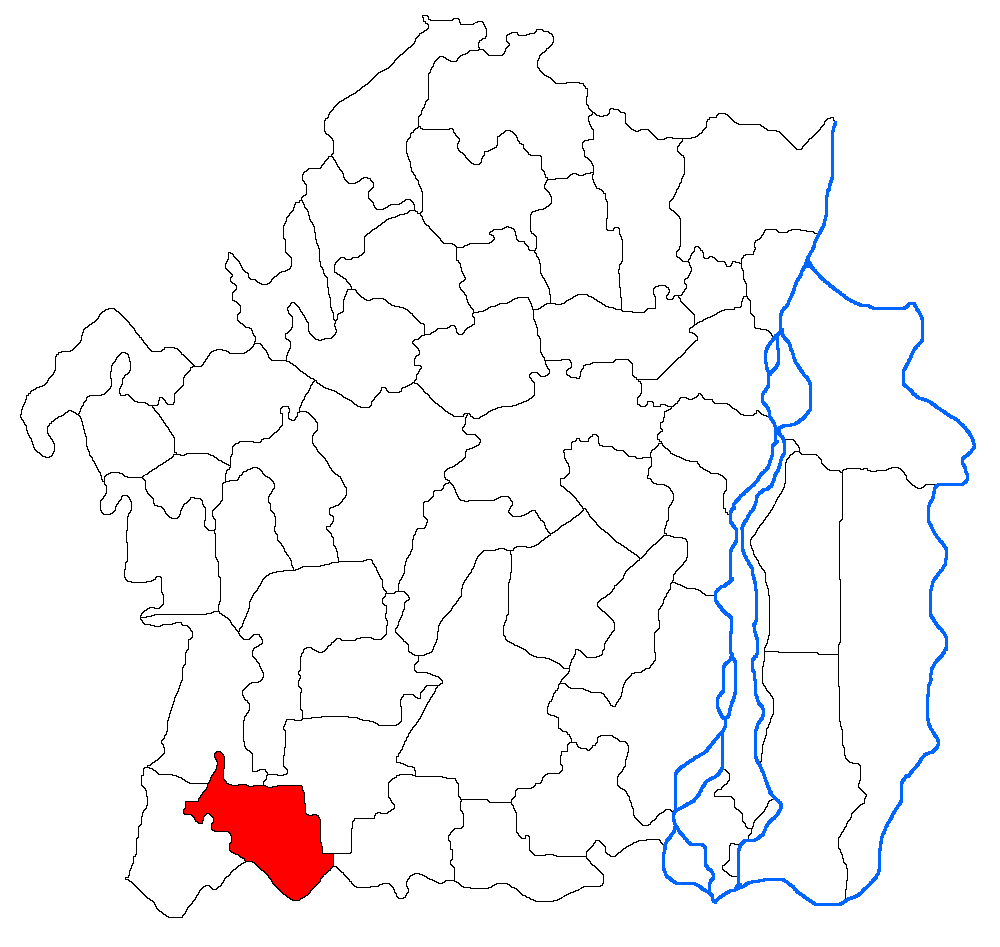 Limits of the commune of Roşiori in Brăila County, Romania